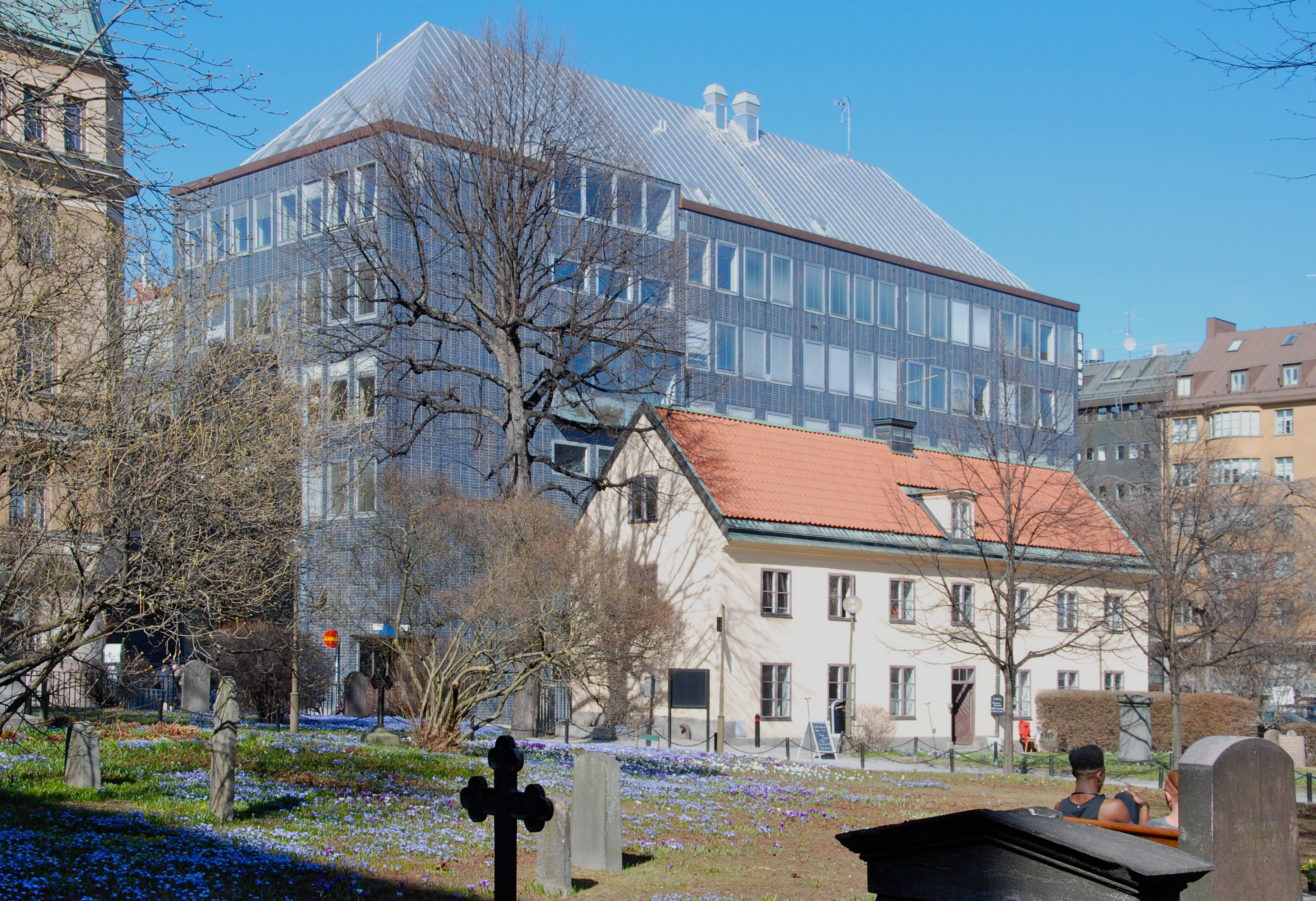 ABF-house, seen from Adolf Fredrik's cemetery.